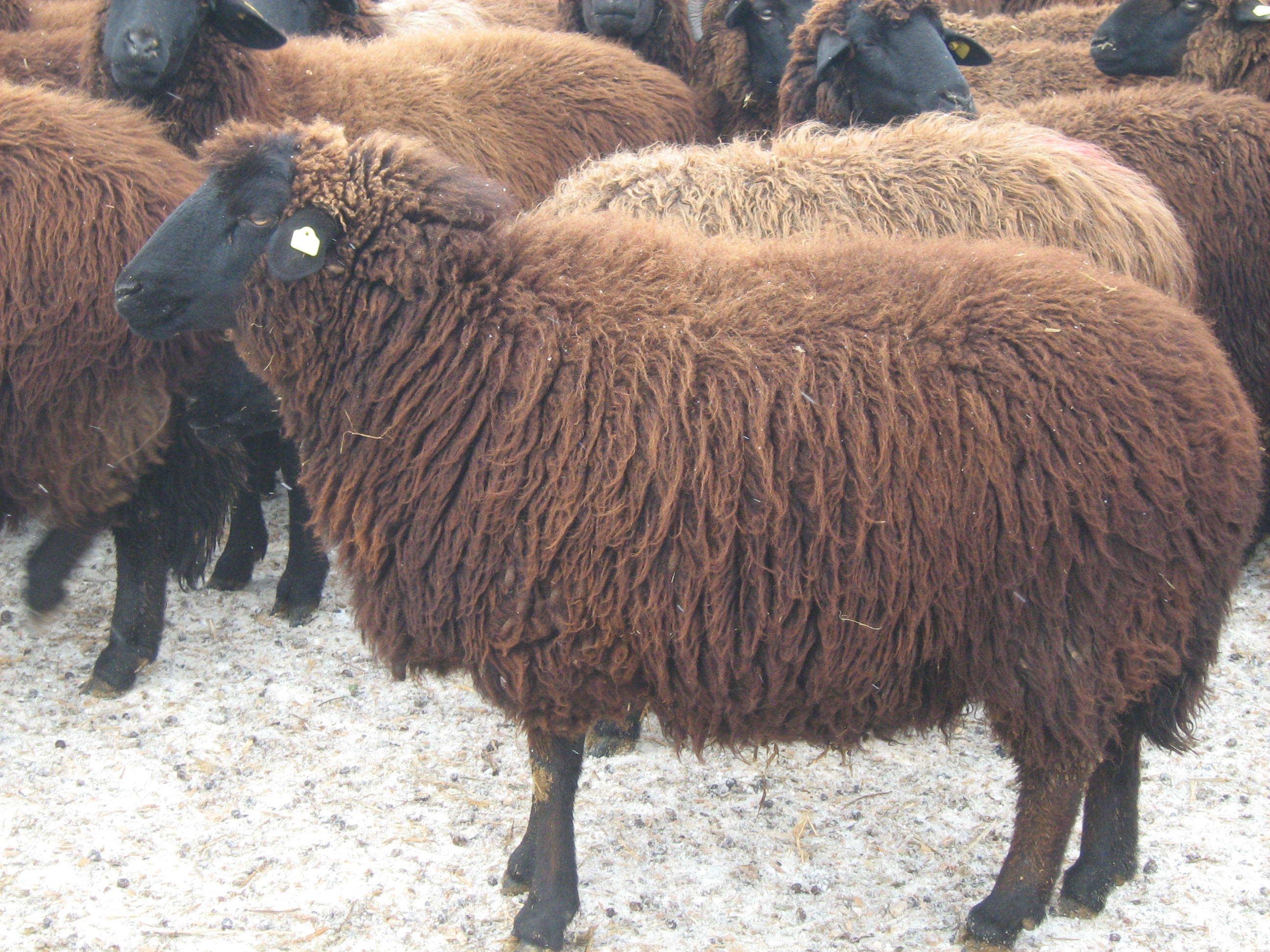 Copper-Red Shumen Sheep